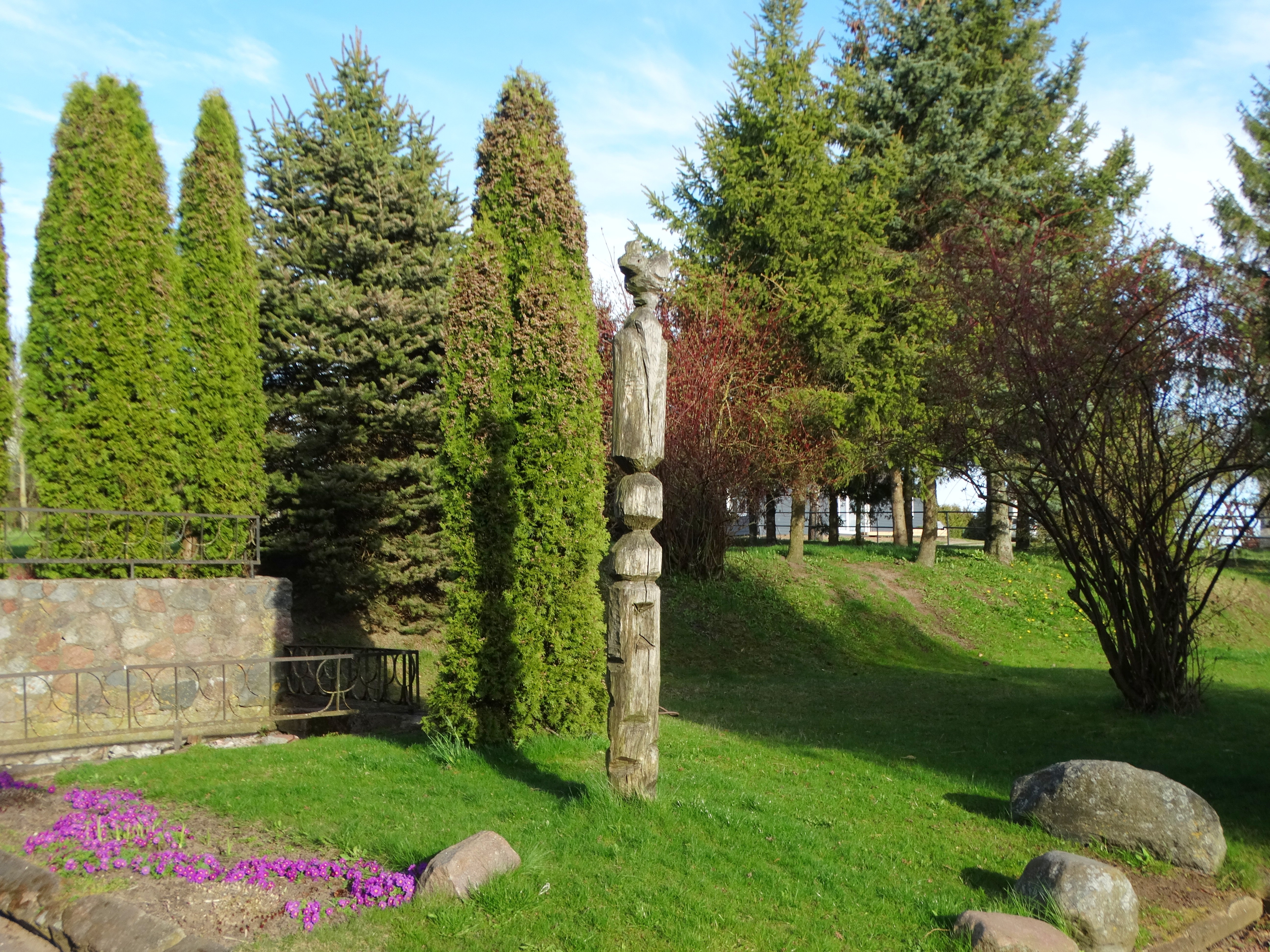 Sudargas, Šakiai district, Lithuania